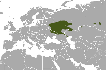 Russian Desman (Desmana moschata) range